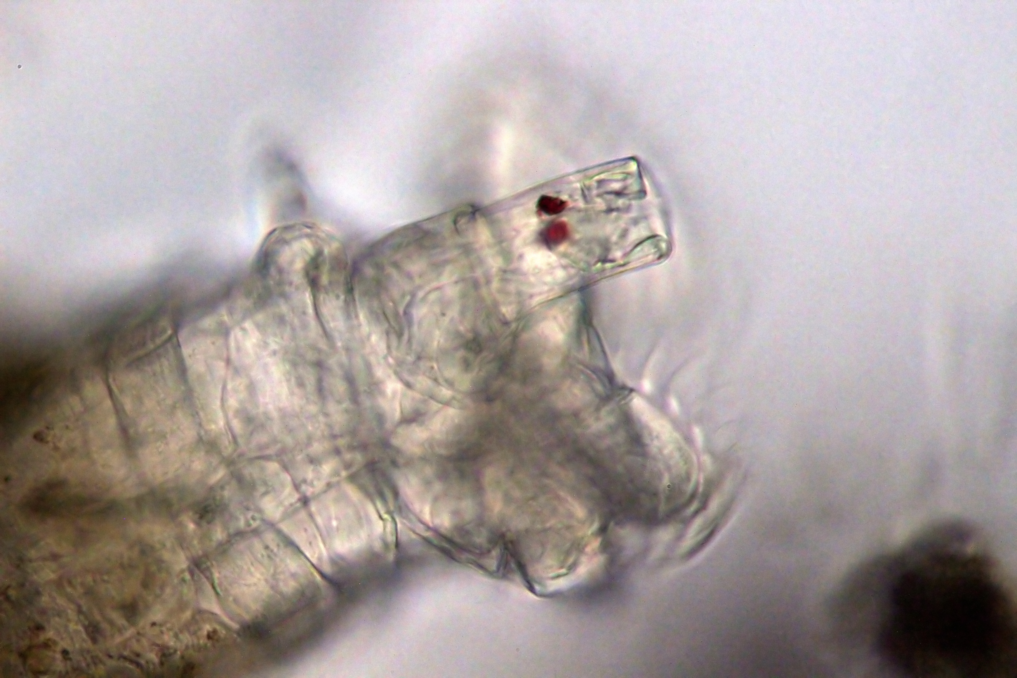 Rotifera, commonly called wheel animals